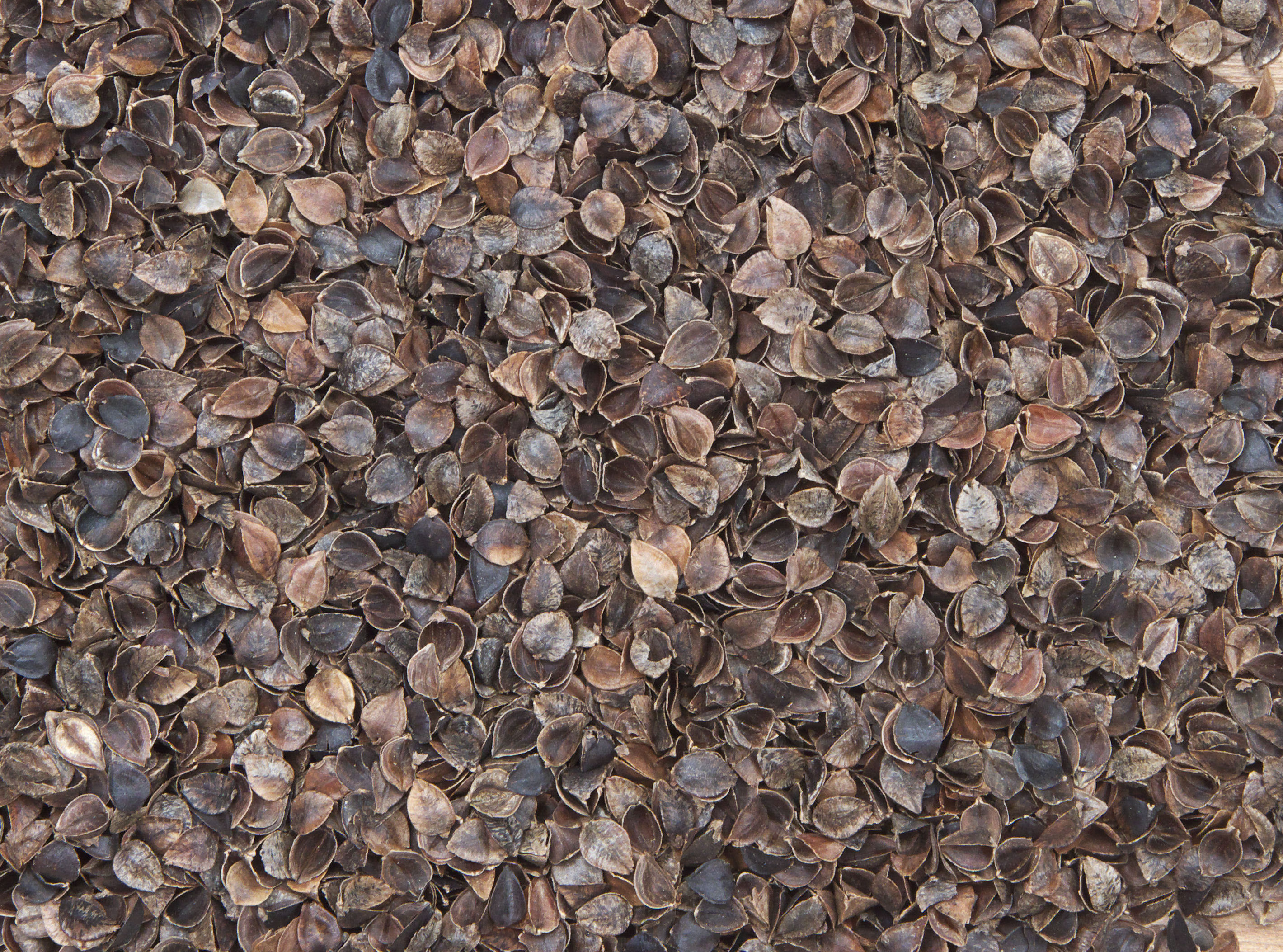 Buckweat pericarps